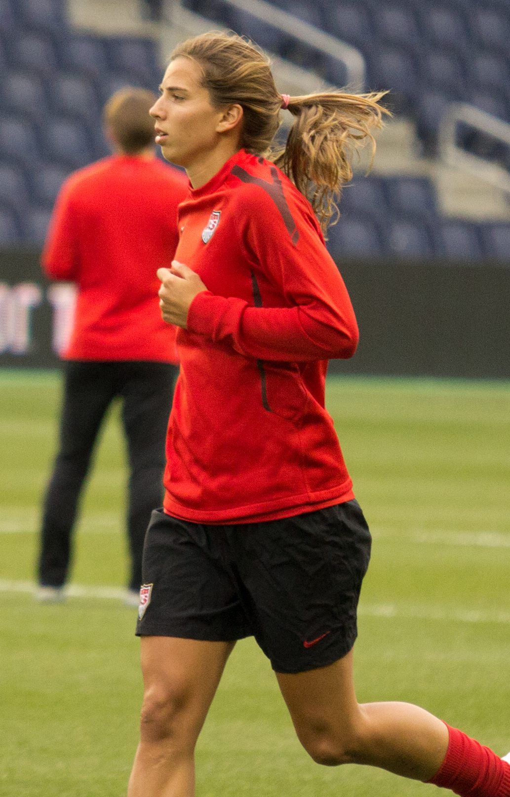 Tobin Heath of the United States Women's National Soccer team warming up prior to a friendly against Canada on September 17, 2011.